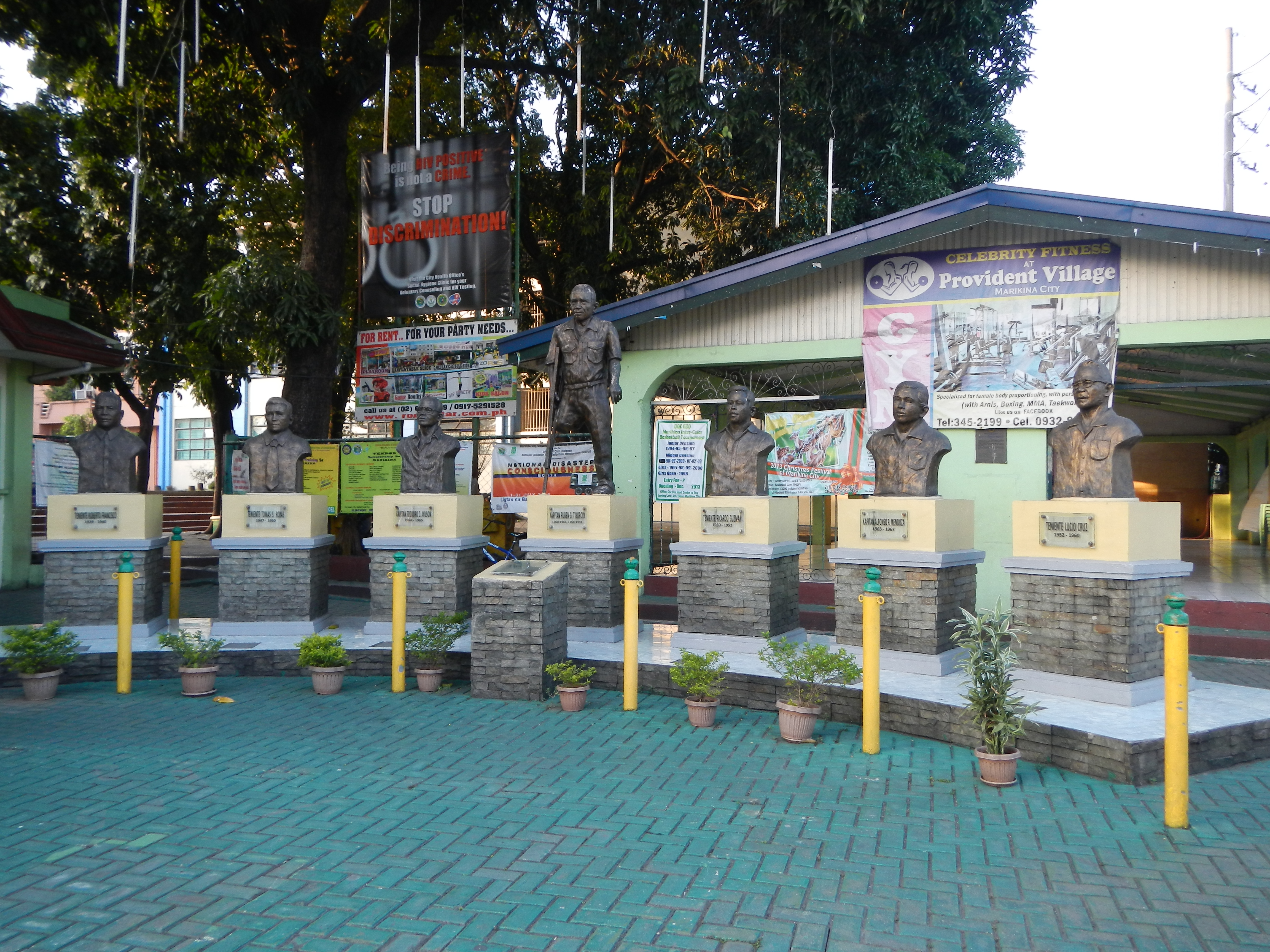 Upload Wizard photos of Marikina City [1] - a) Marikina River [2] under the Marikina Bridge, Upper Marikina River Basin Protected Landscape[3] and b) Barangay Barangaka, Marikina City, Hall [4] Complex, School and Centre of Commerce and c) ) Pentecostal Missionary Church of Christ (4th Watch) [5] and National Christian Life College [6] (NCLC), formerly the Maranatha Christian Academy.